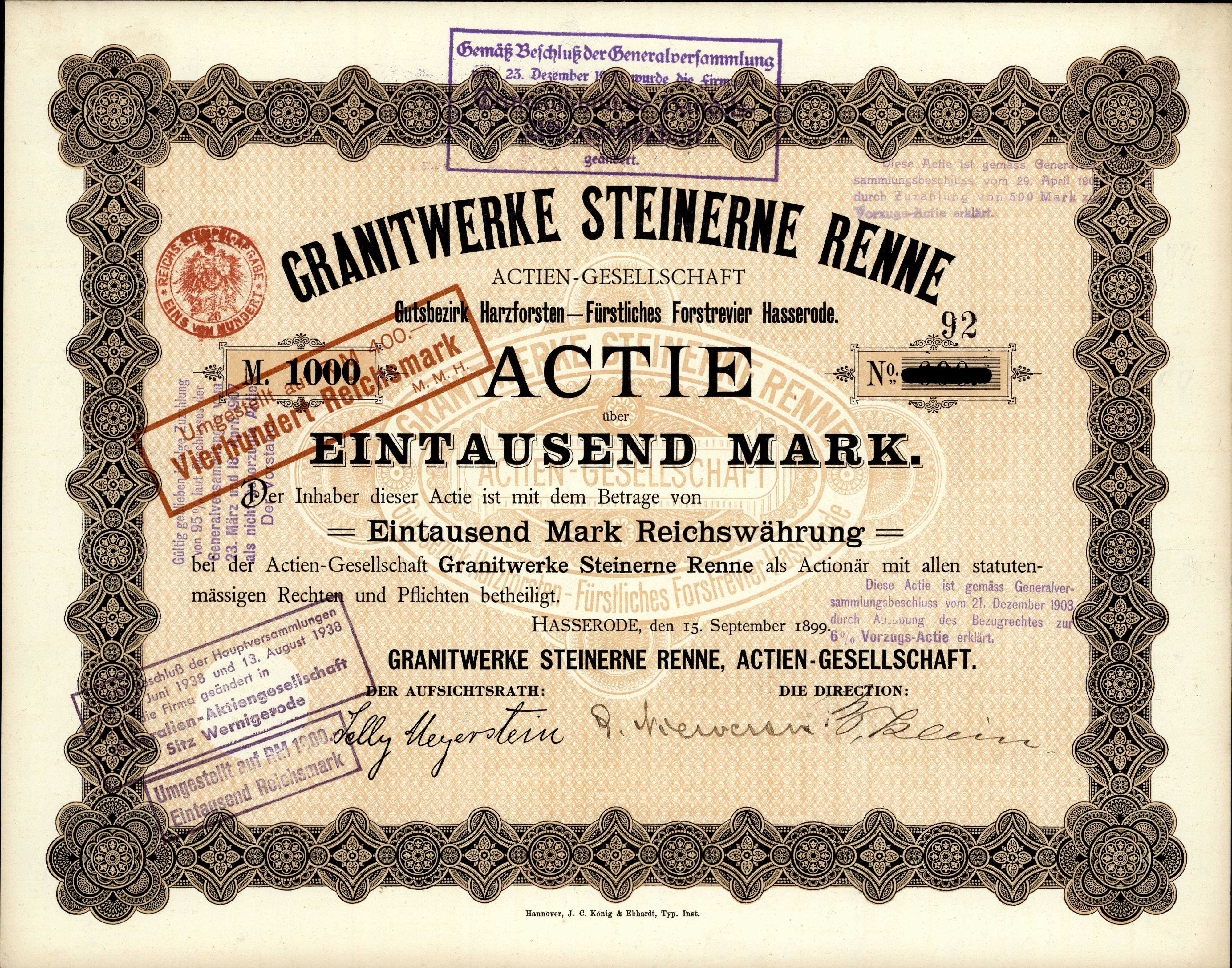 Share of the Granitwerke Steinerne Renne AG, issued 15. September 1899